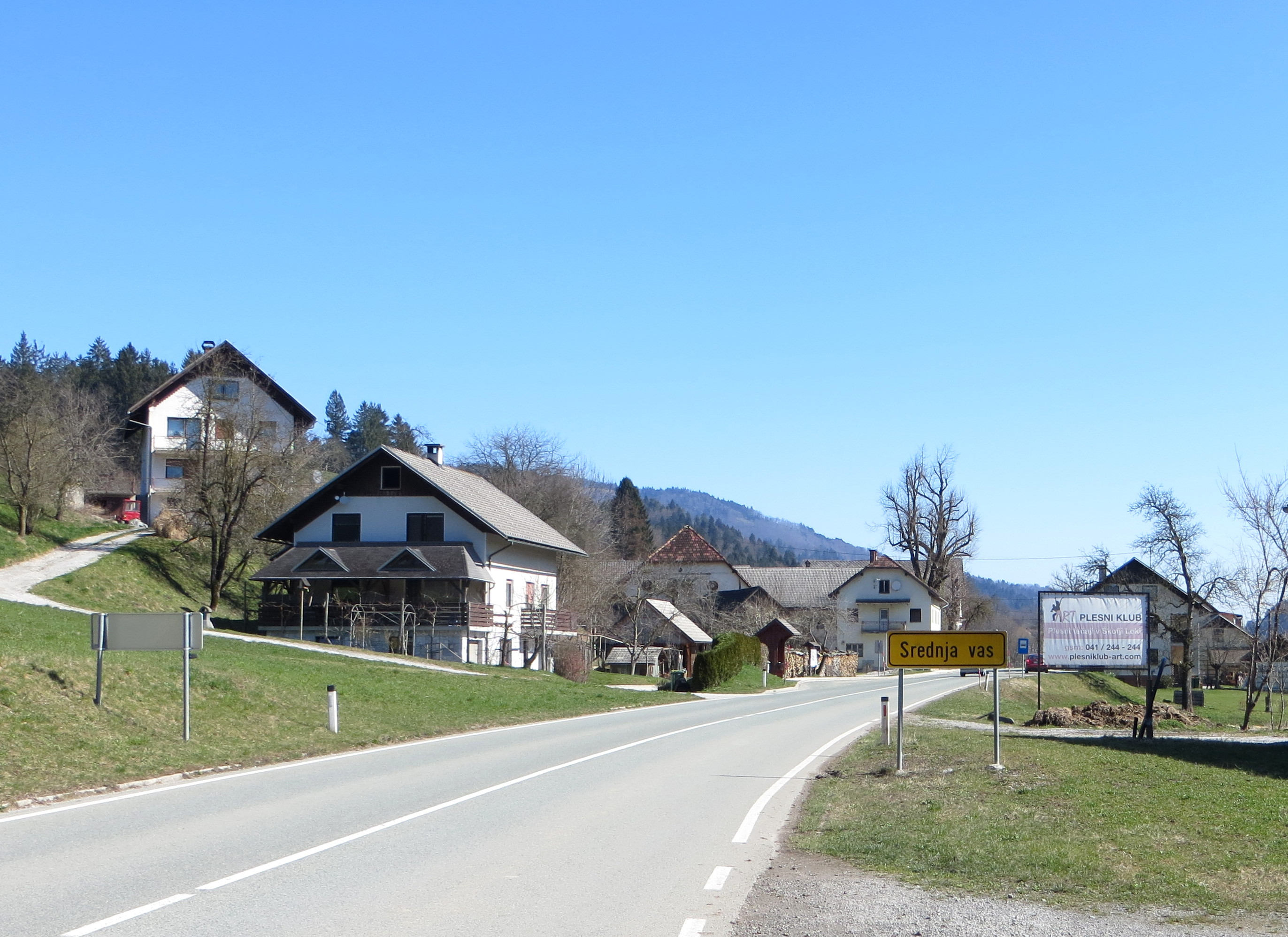 Srednja Vas–Poljane, Municipality of Gorenja Vas–Poljane, Slovenia